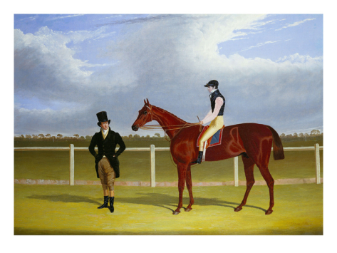 British racehorse Rowton